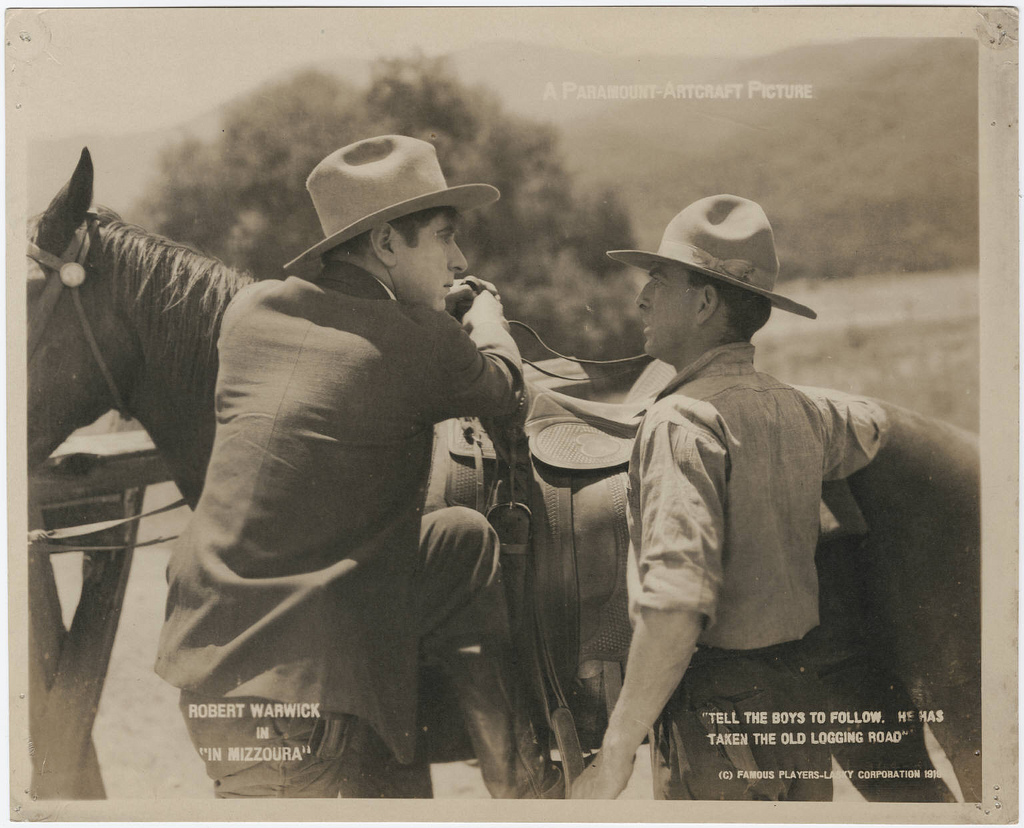 Lobby card with Robert Warwick in the American film In Mizzoura (1919). Caption: "Tell the boys to follow. He has taken the old logging road." 20.3 x 25 cm. Part of the Western silent films lobby card collection, 1912-1930. Cite as Yale Collection of Western Americana, Beinecke Rare Book & Manuscript Library, Yale University. Bibliographic Record Number 2019877. View our Record Permalink.